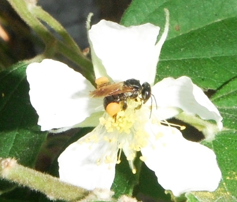 Scaptotrigona mexicana with pollen in pollen baskets